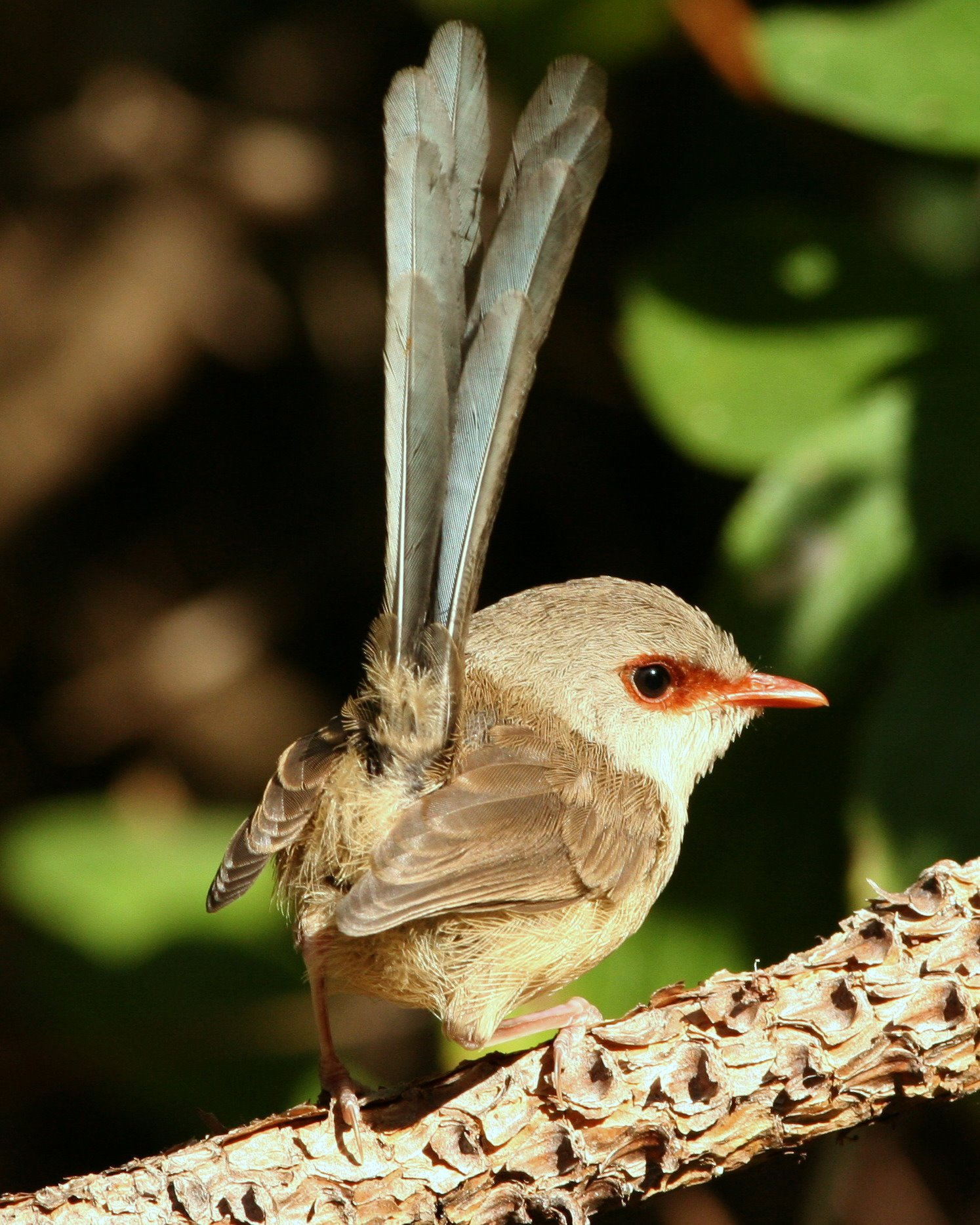 Variegated Fairy-wren, Malurus lamberti, female, race lamberti